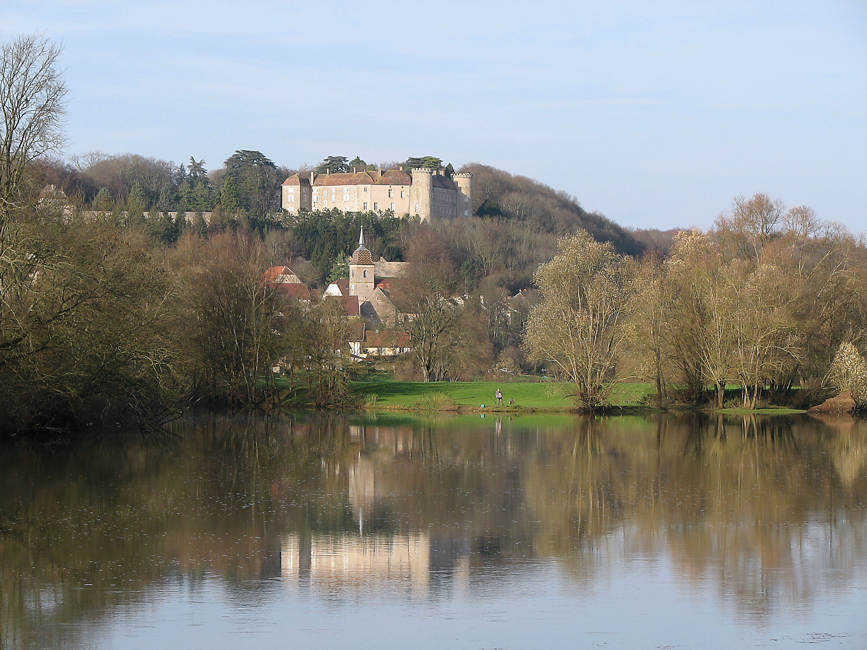 The river Saone - Ray-sur-Saône